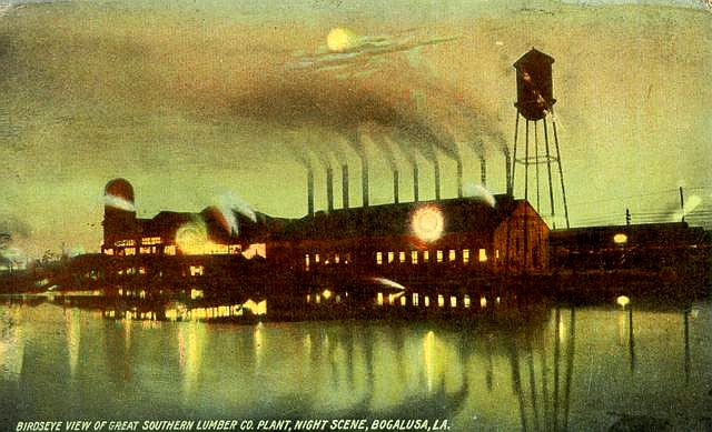 "Birdseye view of the Great Southern Lumber Co. Plant, Night scene, Bogalusa, La." Photopostcard.